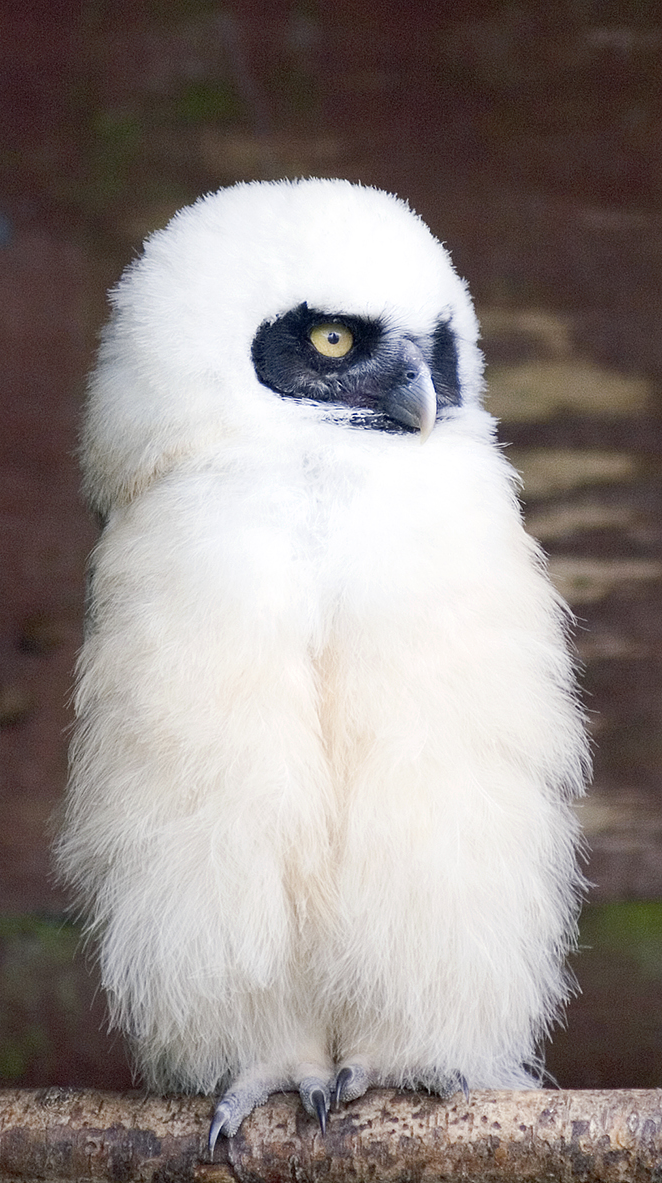 Baby spectacled owl